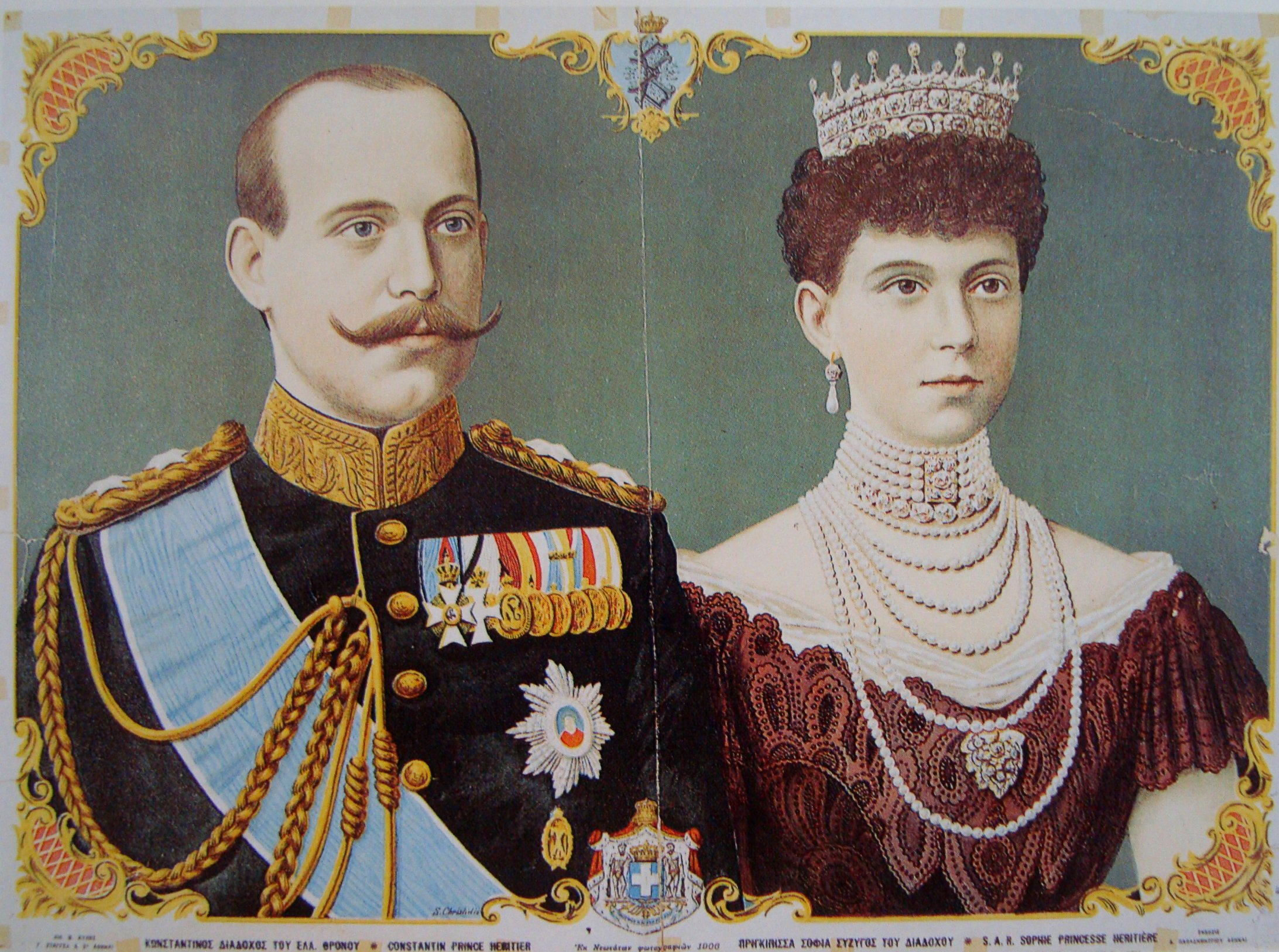 King Costantine I and queen Sophia of Greece